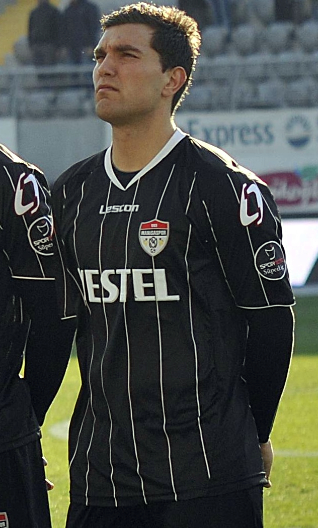 Photo:Koray Geçgel & Murat Özgen